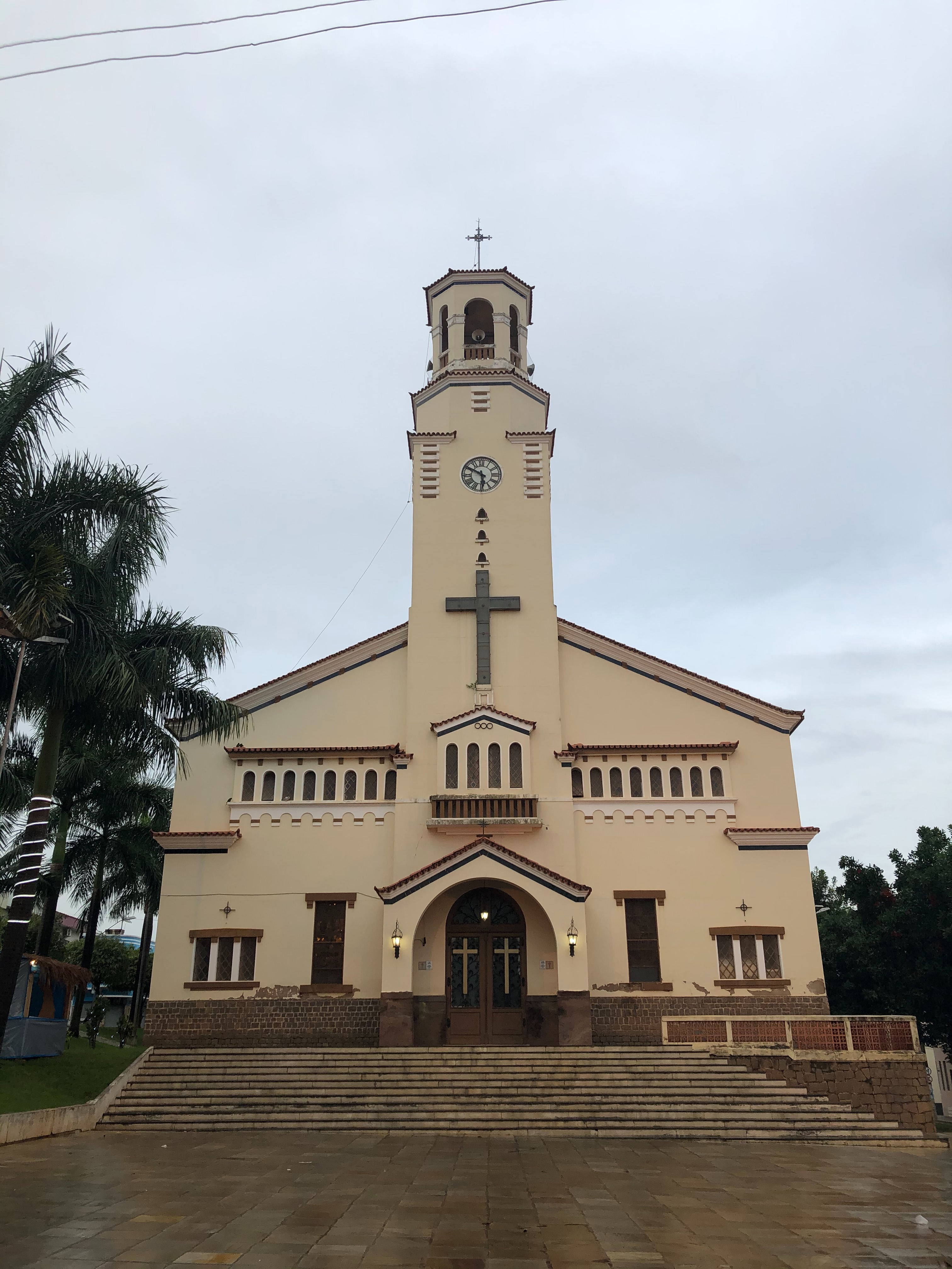 The façade of the Parish of Our Lady of Mount Caramel, one of the most symbolic buildings in Paraguaçu, Minas Gerais.